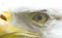 Nictitating membrane visible in the eye of a Bald Eagle